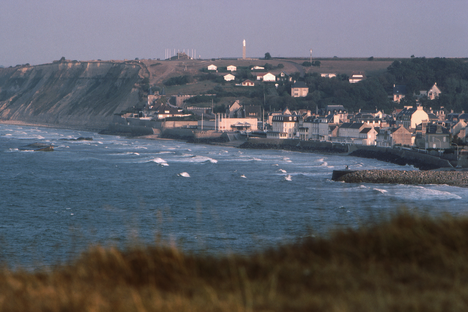 View to Arromanches-les-Bains from Cap Manvieux; Arromanches, Normandy, France